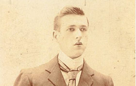 Ernest Morton Barker in the 1890s